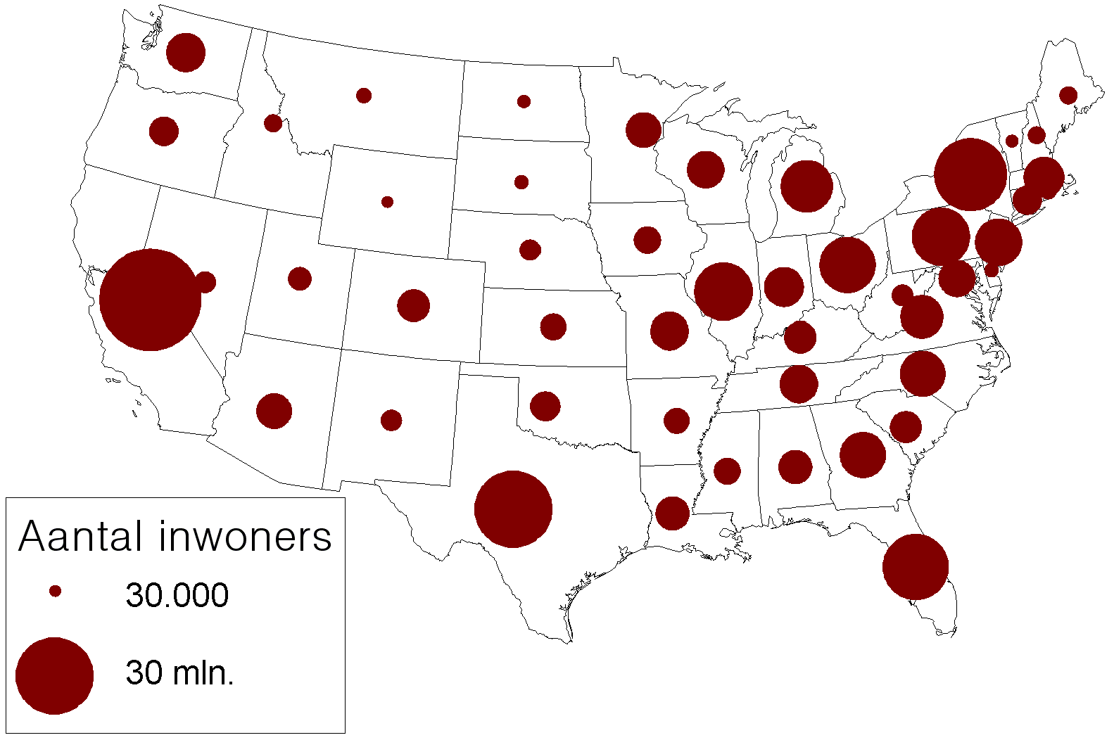 Map of the United States with size of circle representing state population.